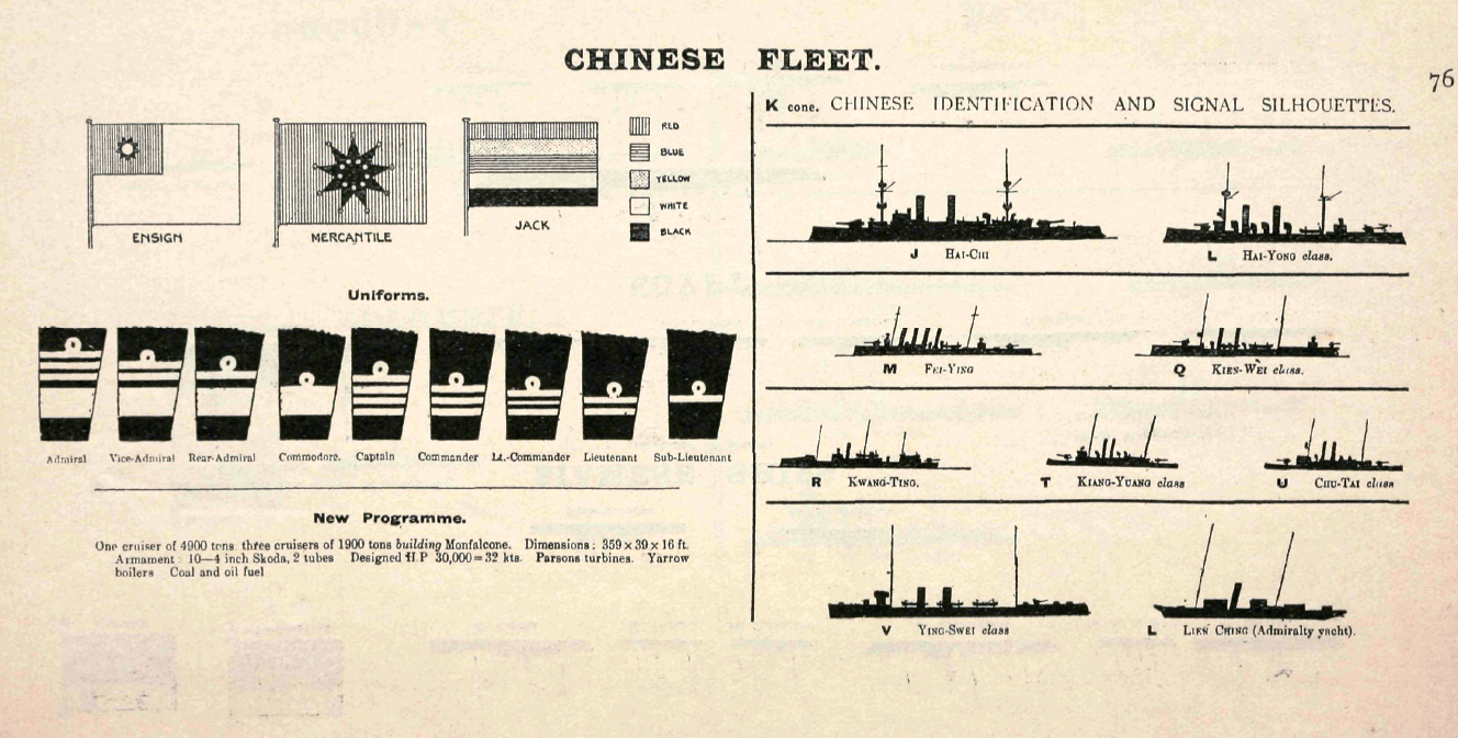 Flags, officer rank insignia and warship silhouettes of the Chinese Navy, 1914